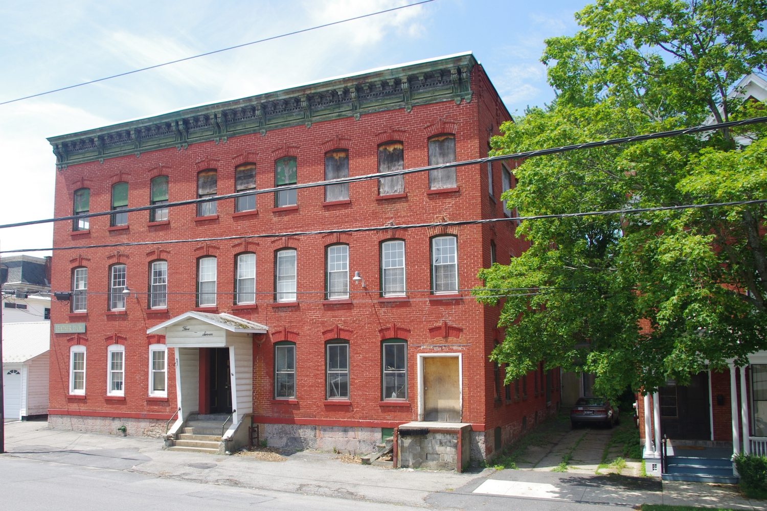 Johnstown, Industrial Building